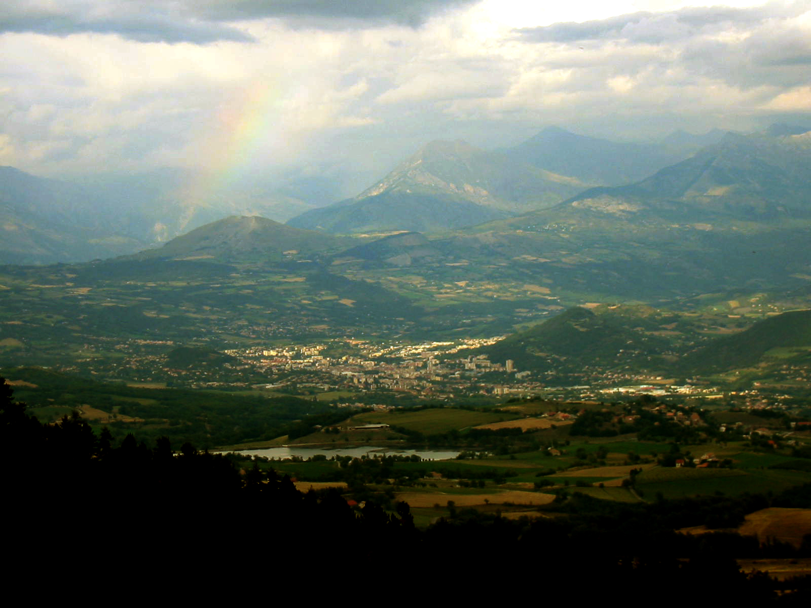 French town of Gap